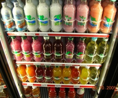 SoBe drinks in a cooler